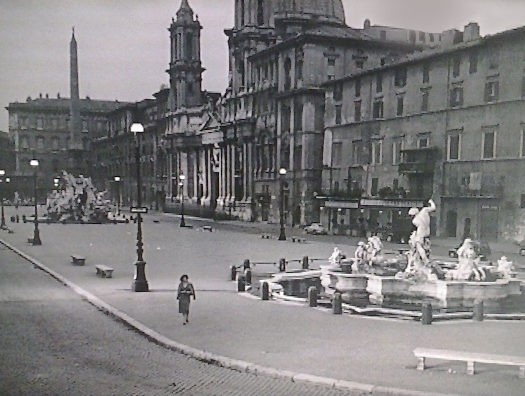 Woman of Rome (1954)